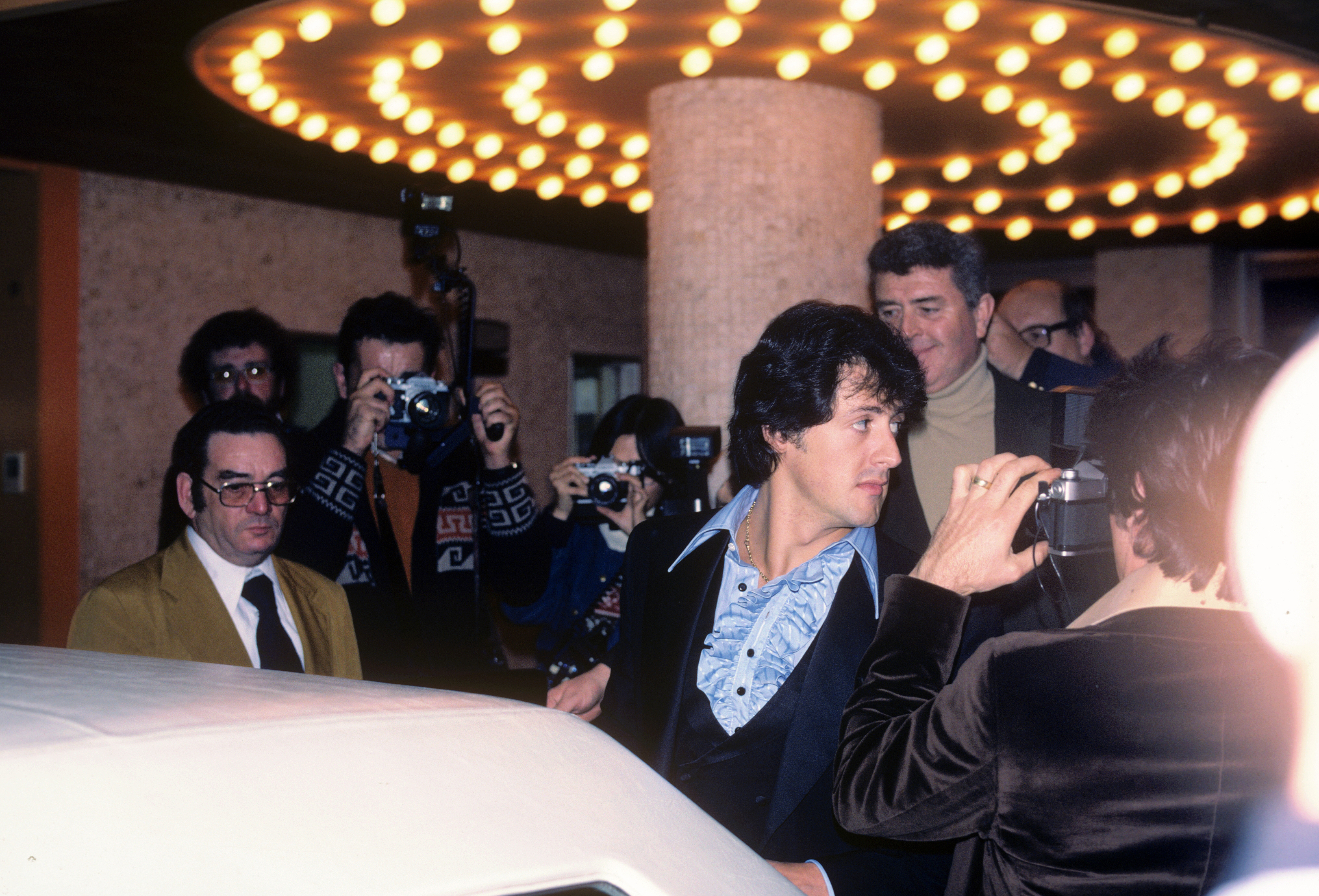 Sylvester Stallone at the private party after the premiere of the movie FIST, 1978